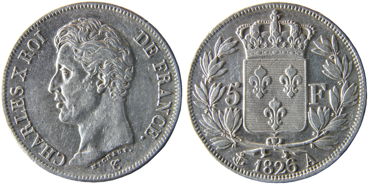 France, coin 5 francs, 1826 - Charles X. Silver. Chasing - Paris.